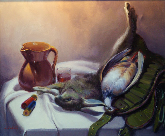 Oil Painting by Luis Cebrián